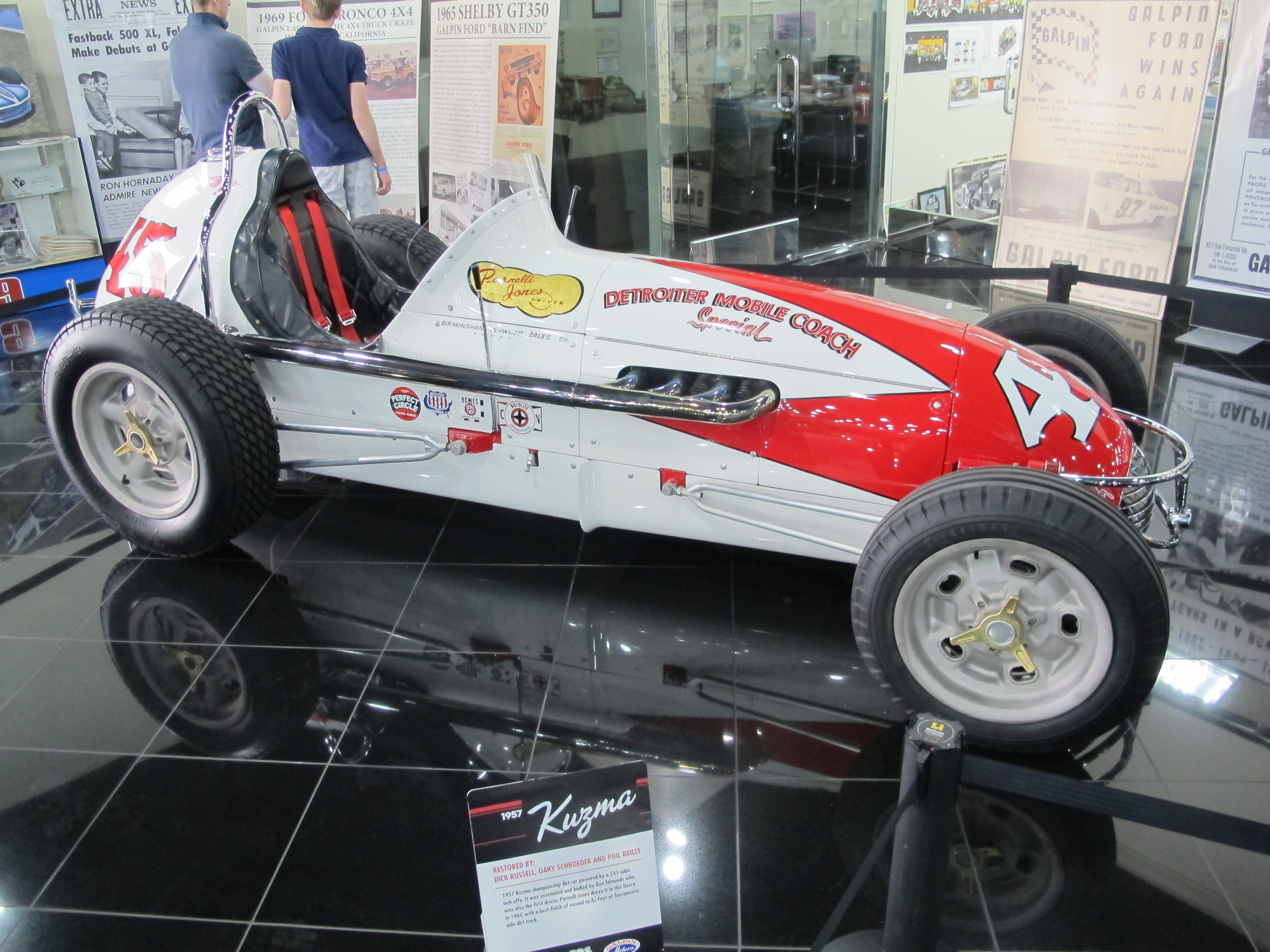 A 1957 Eddie Kuzma built championship sprint car powered by a 255 cu.in. Offenhauser engine and driven by Don Edmunds and Parnelli Jones.